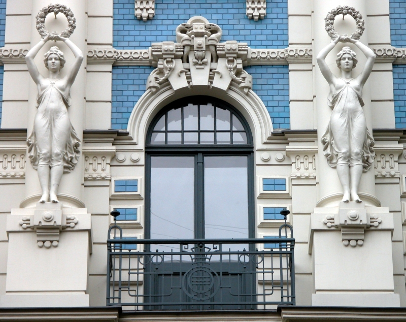 Riga: Art Nouveau façade. Building located at Strelnieku iela 4a.